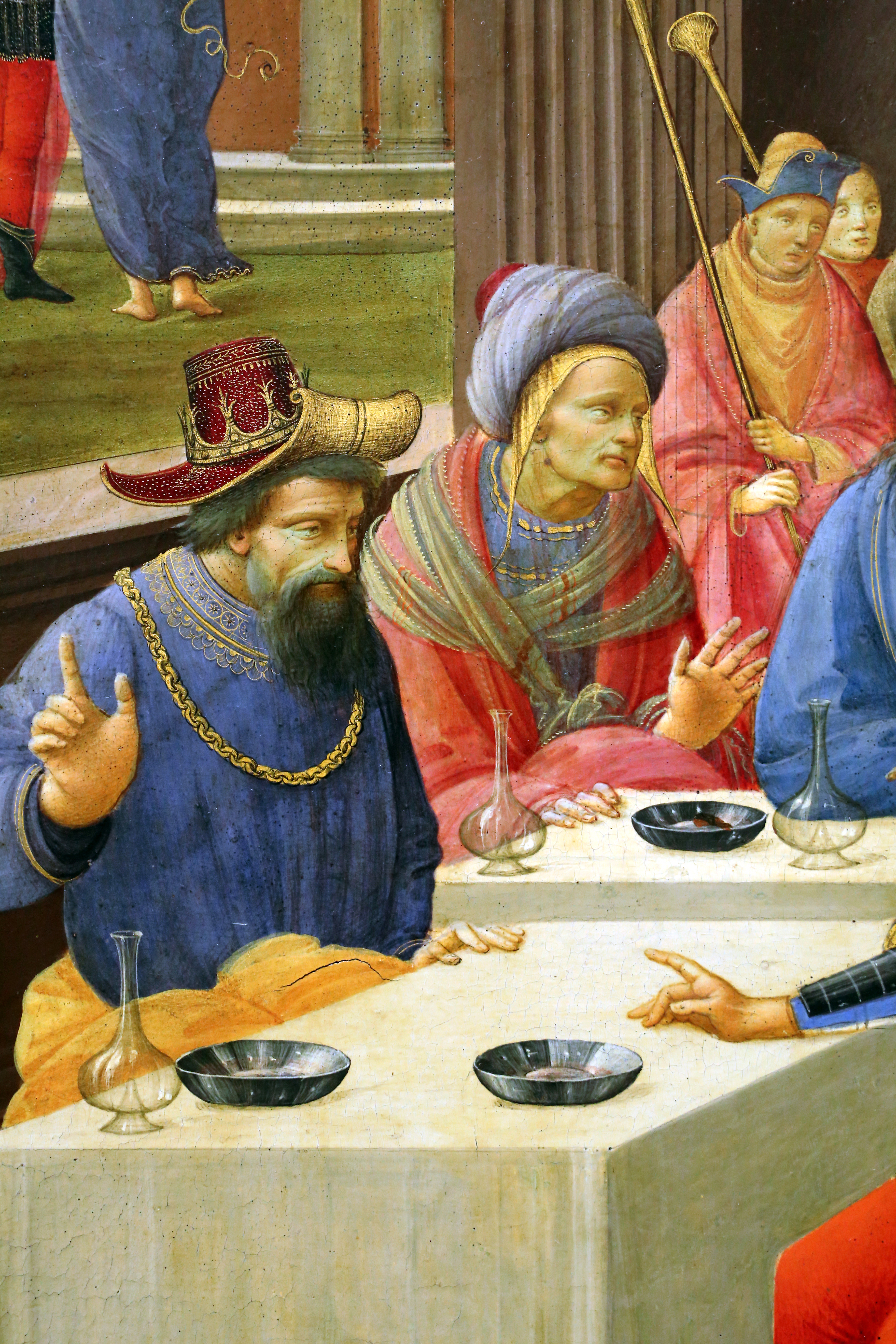 Italian Renaissance paintings in the National Gallery, London